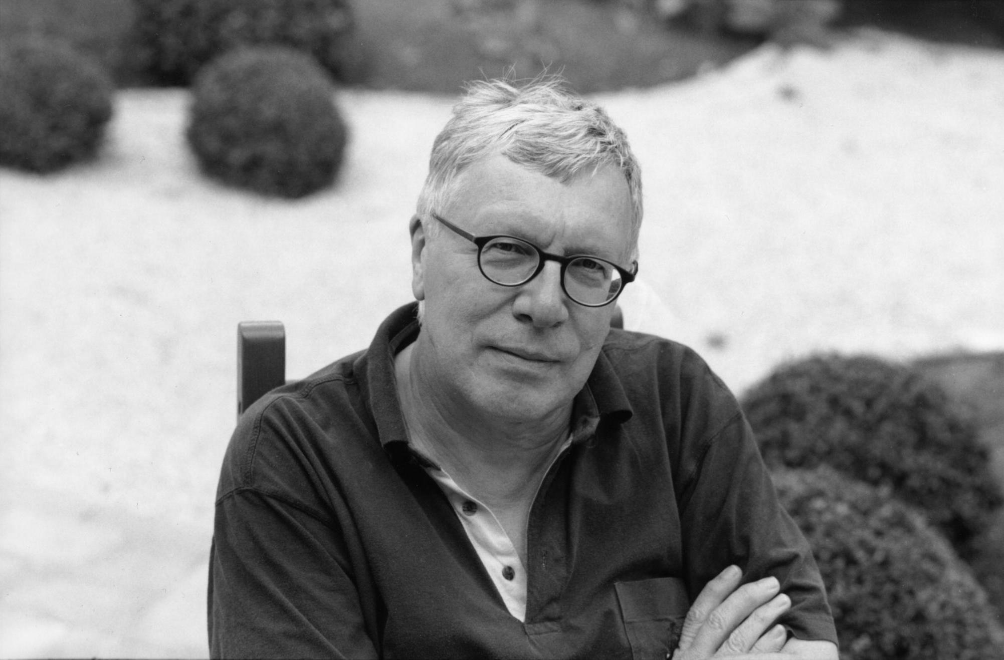 Portrait of Paul Jacobs by Peter Meyvis